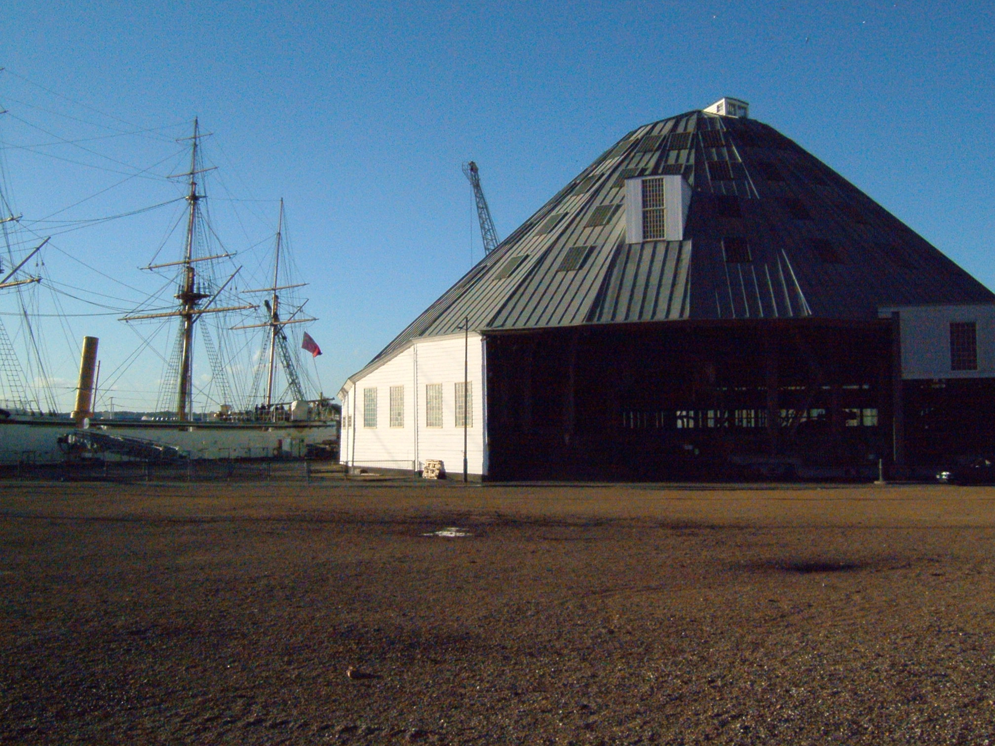 No 3 Covered Slip at Chatham Dockyard, with HMS Gannet behind in No 4 Dry Dock. This slip built in 1838 had a timber framed roof sheeted in zinc.